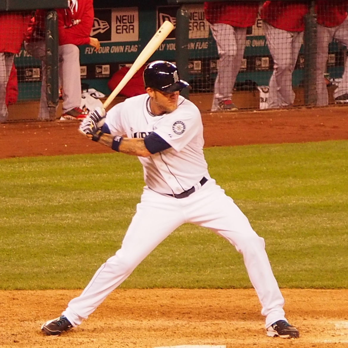 Corey Hart